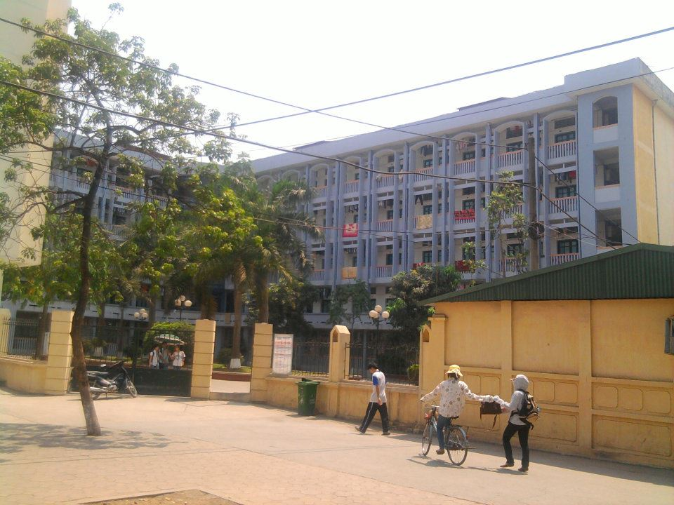 The B1 Building of Me Tri Campus contains some classrooms of HUS High School